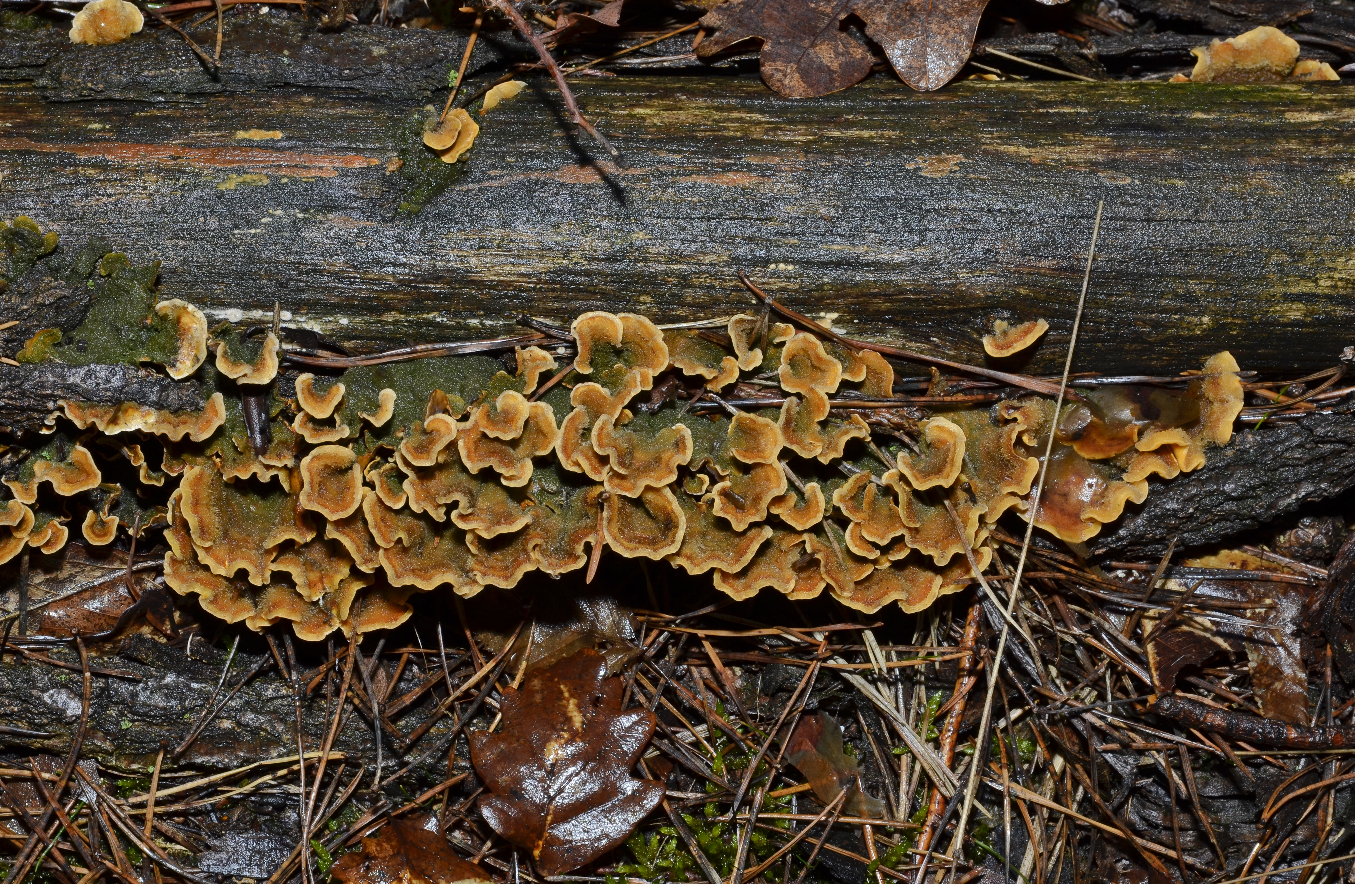 Stereum hirsutum, Hesse, Germany. The species was assigned using the book Naturführer Pilze, Roger Phillips, ISBN 3-440-07510-X Invalid ISBN. Please let me know, if you think it is a different species.